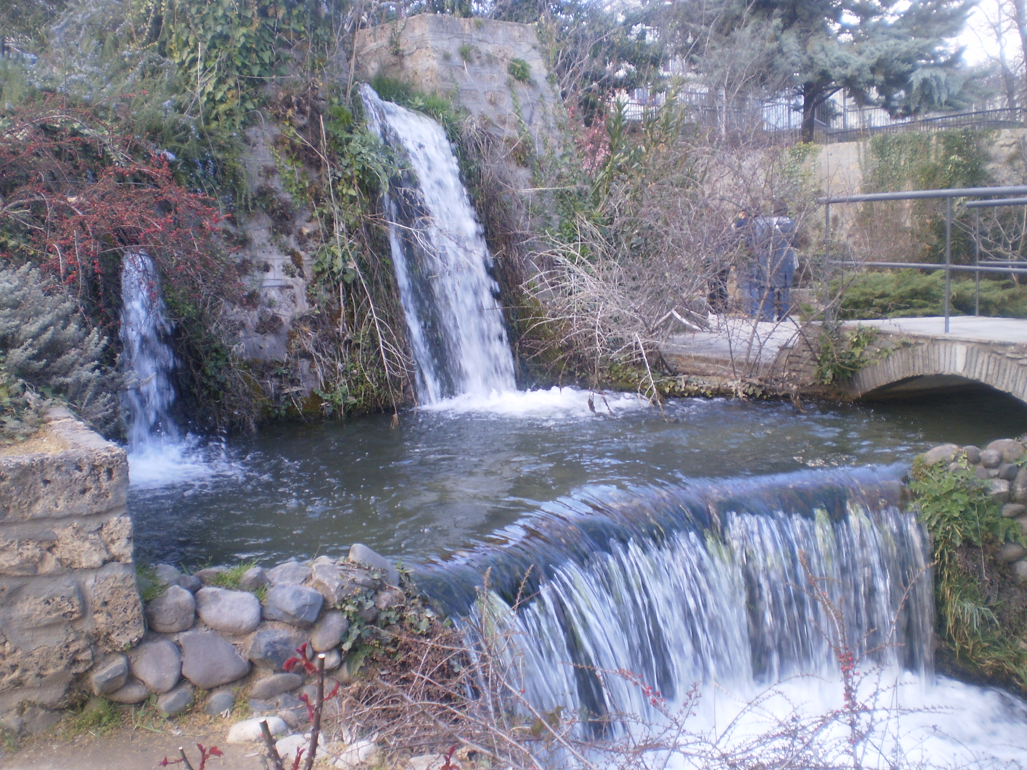 Falls in Edessa, Greece